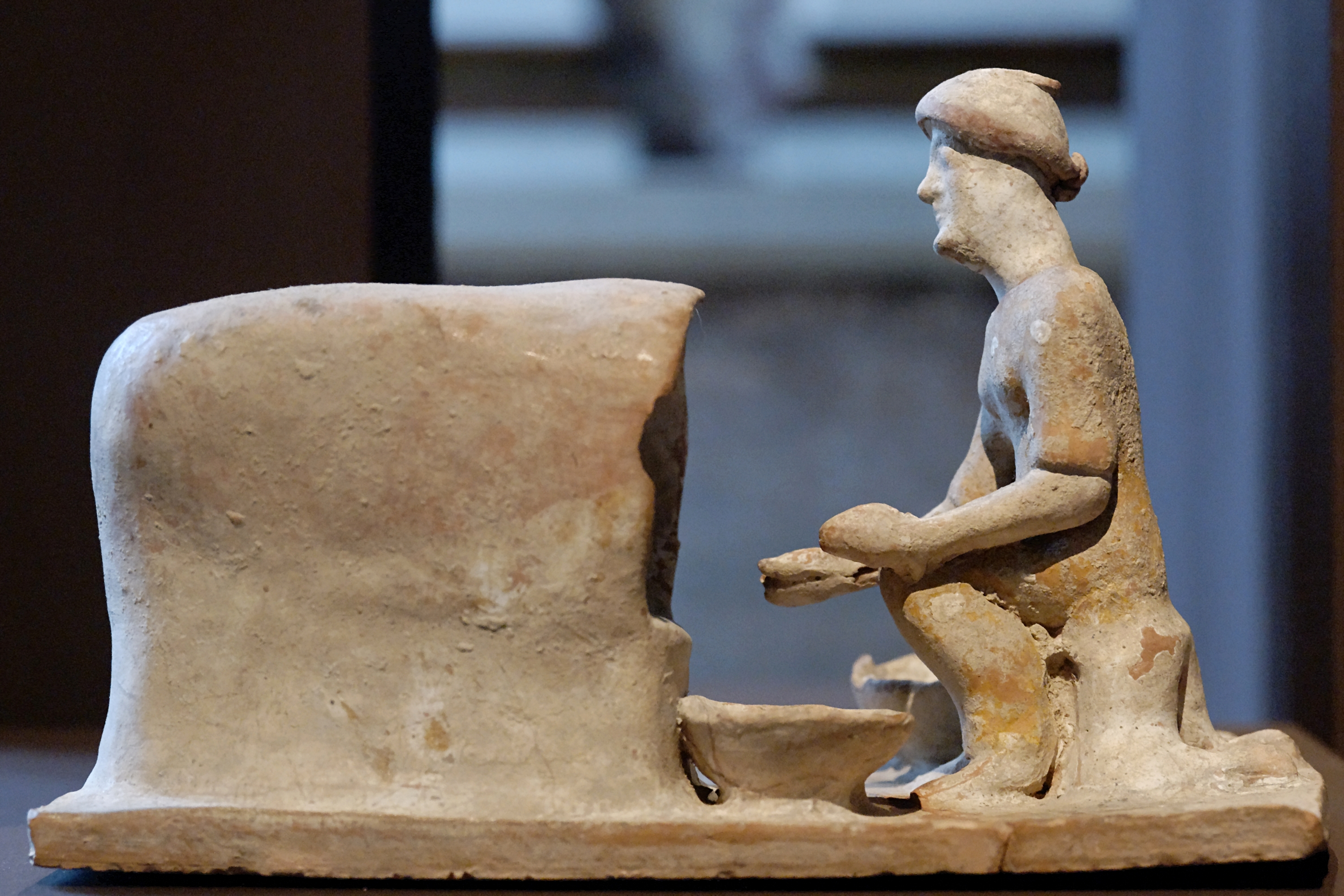 Female baker taking bread from the oven.